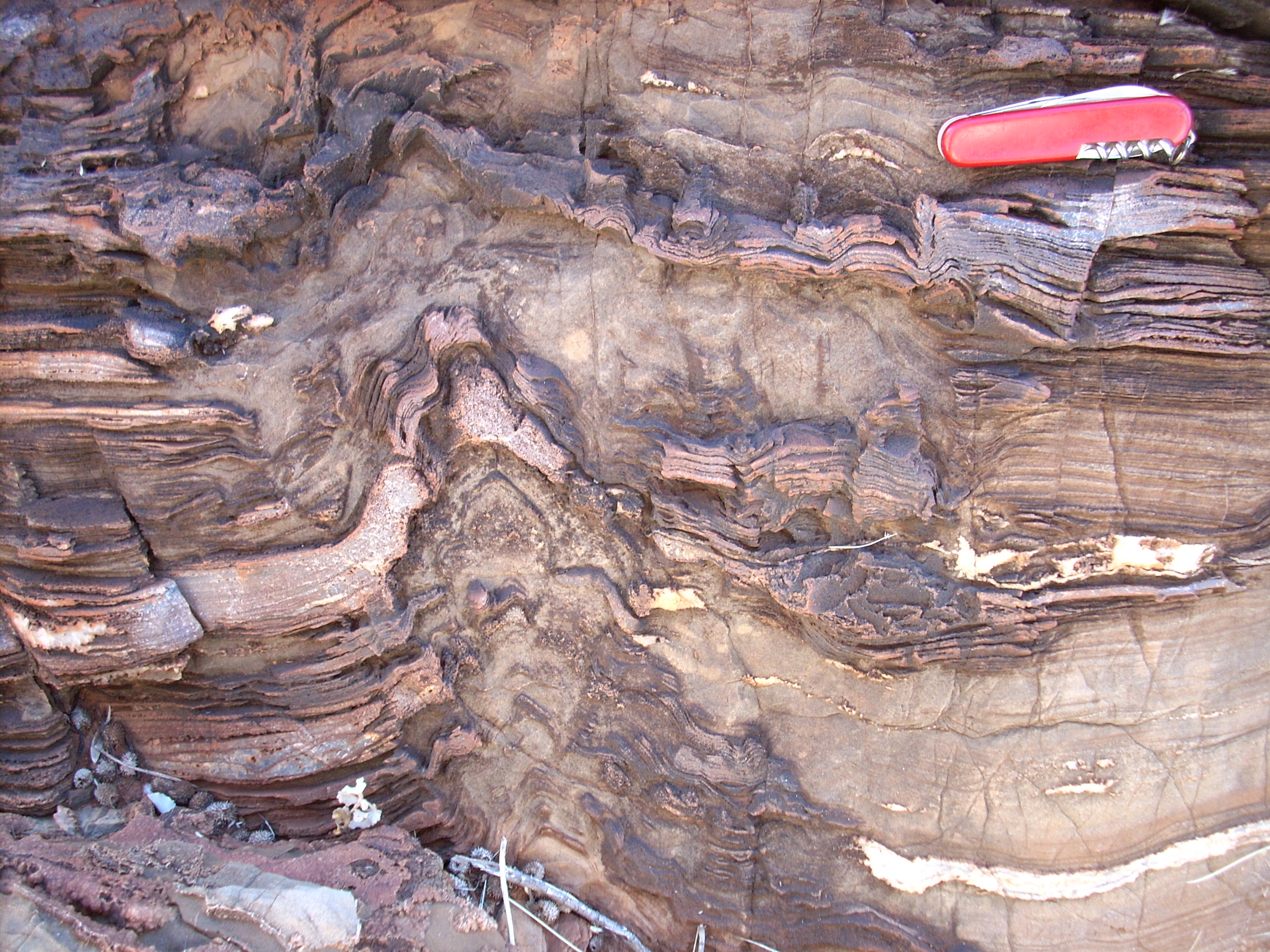 Warawoona stromatolites 3.4 Ga